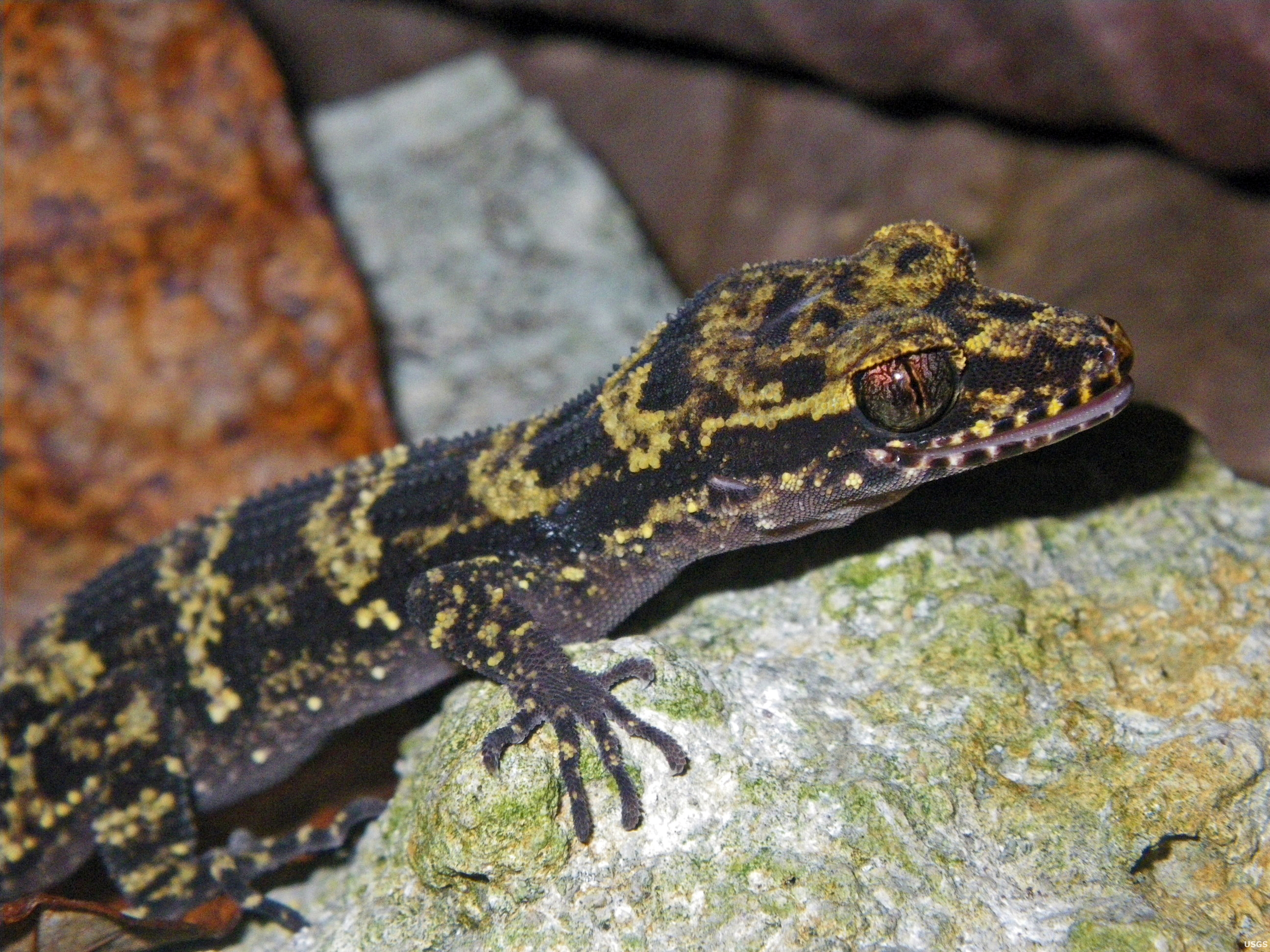 Nactus kunan Bumblebee Gecko, from Papua New Guinea was discovered in 2010, and described as a new species in 2012. The yellow and black gecko is about 5 inches long. Location: Manus Island, Papua New Guinea